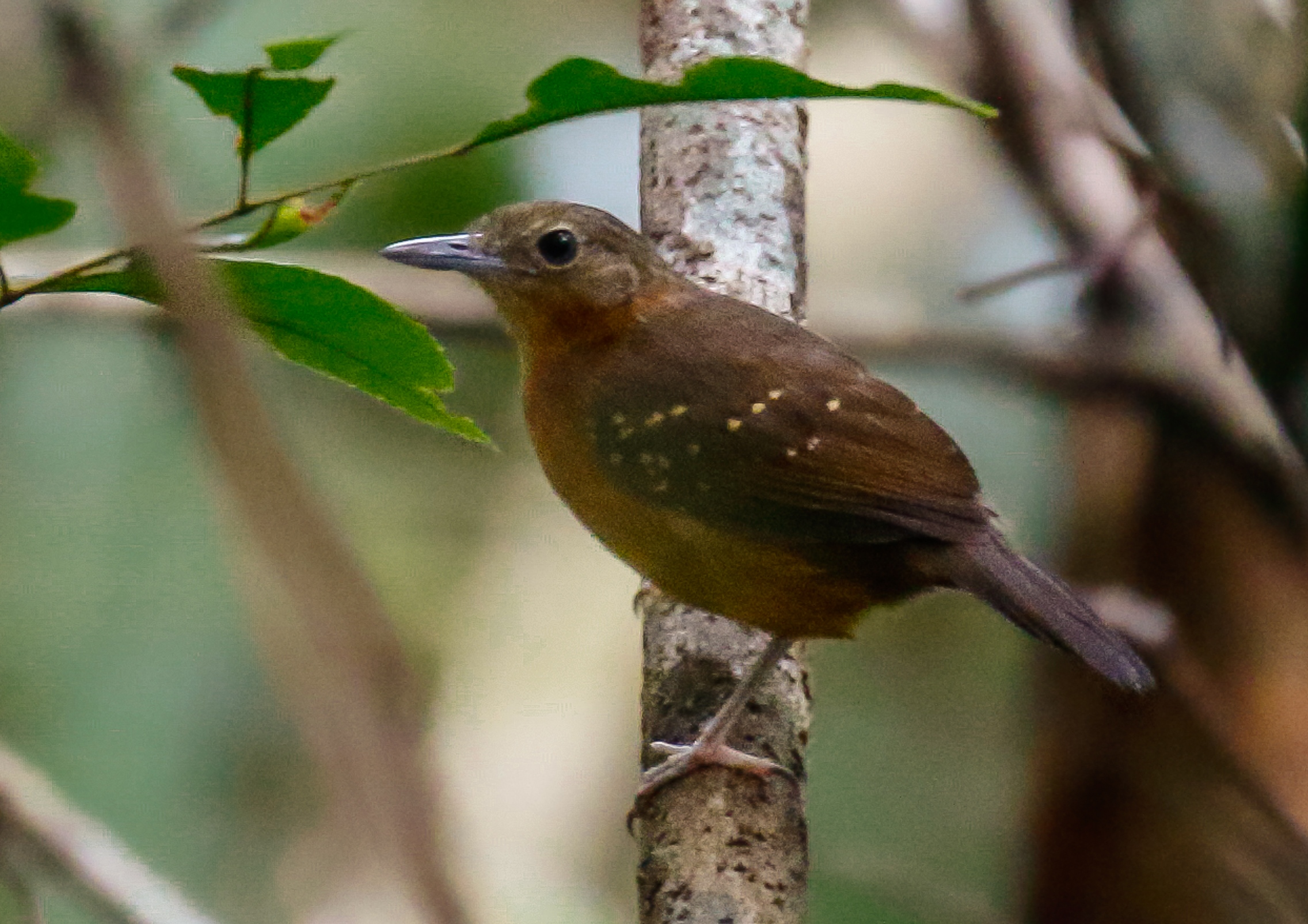 Humaita antbird (female), Careiro, Amazonas, Brazil